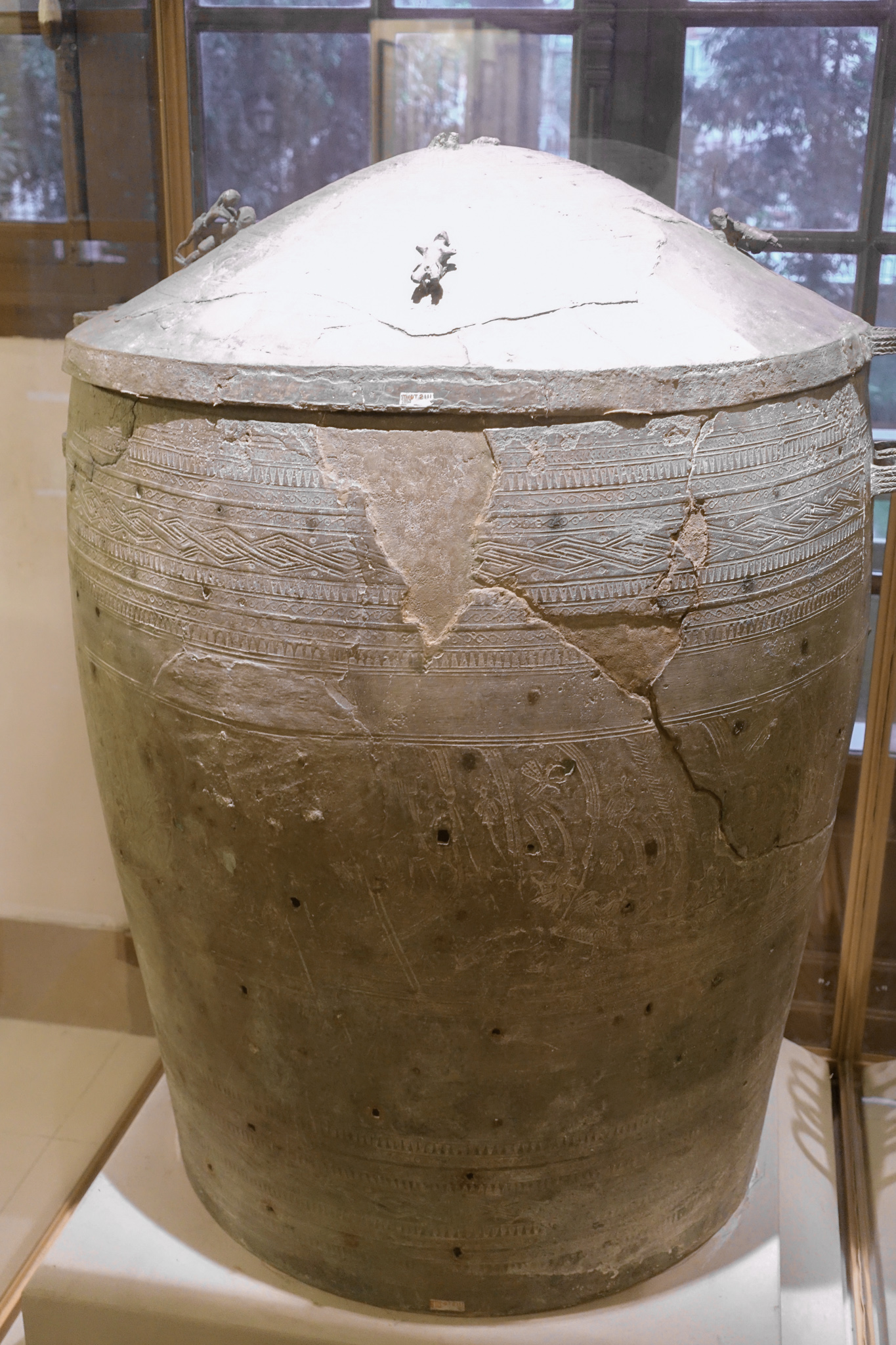 Exhibit in the National Museum of Vietnamese History, Hanoi, Vietnam. This artwork is old enough so that it is in the public domain.